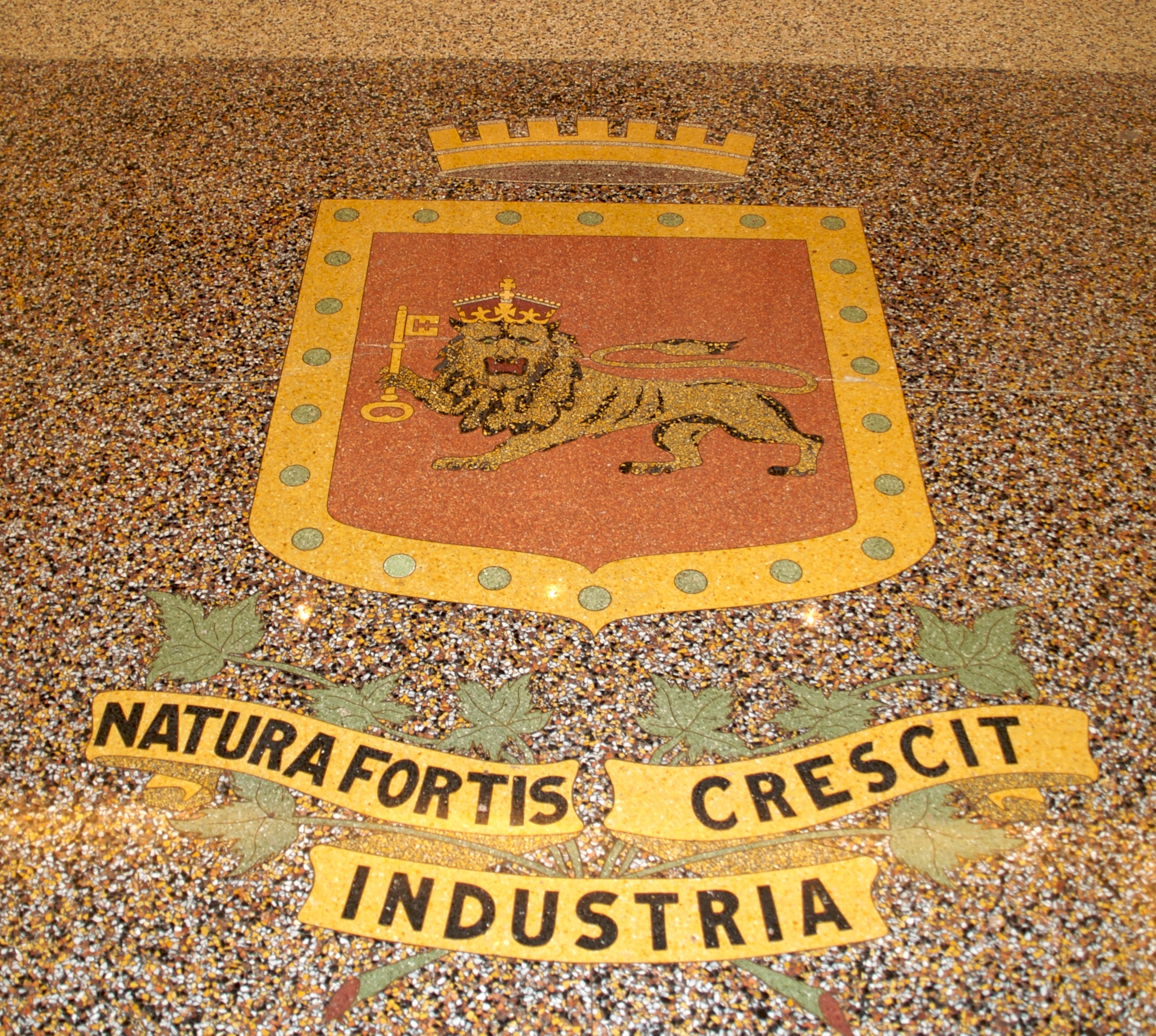 Part of a floor in the Palais Montcalm, in Québec, with artwork depicting the arms of the city of Québec in use from 1833 to 1949.The arms are blazoned as "Gules a lion passant guardant holding in the dexter paw a key erect Or". The symbolism: the English lion holds the town of Québec, the key to Canada. The motto reads "Natura Fortis Industria Crescit" (Strong nature prospers by work). The arms are similar to the lower part of those granted to the Anglican Diocese of Quebec by King George III in 1793. (References: Auguste Vachon, in Heraldic Science héraldique and Daniel Cogné, in Heraldic America)